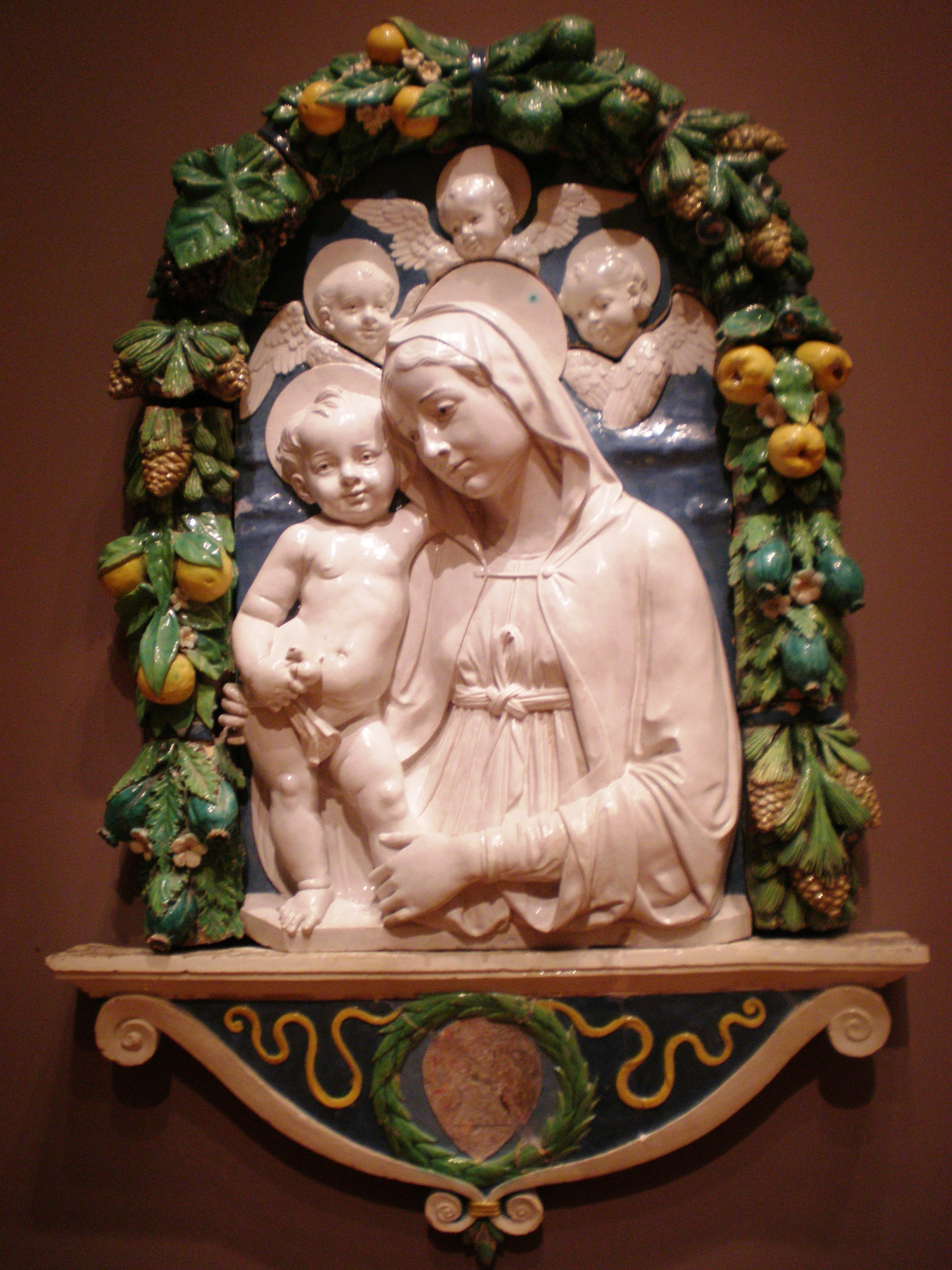 Virgin and Child with Putti by Andrea della Robbia, ca. 1490-95, glazed terracotta relief. On display at the California Palace of the Legion of Honor in San Francisco. 2003.1